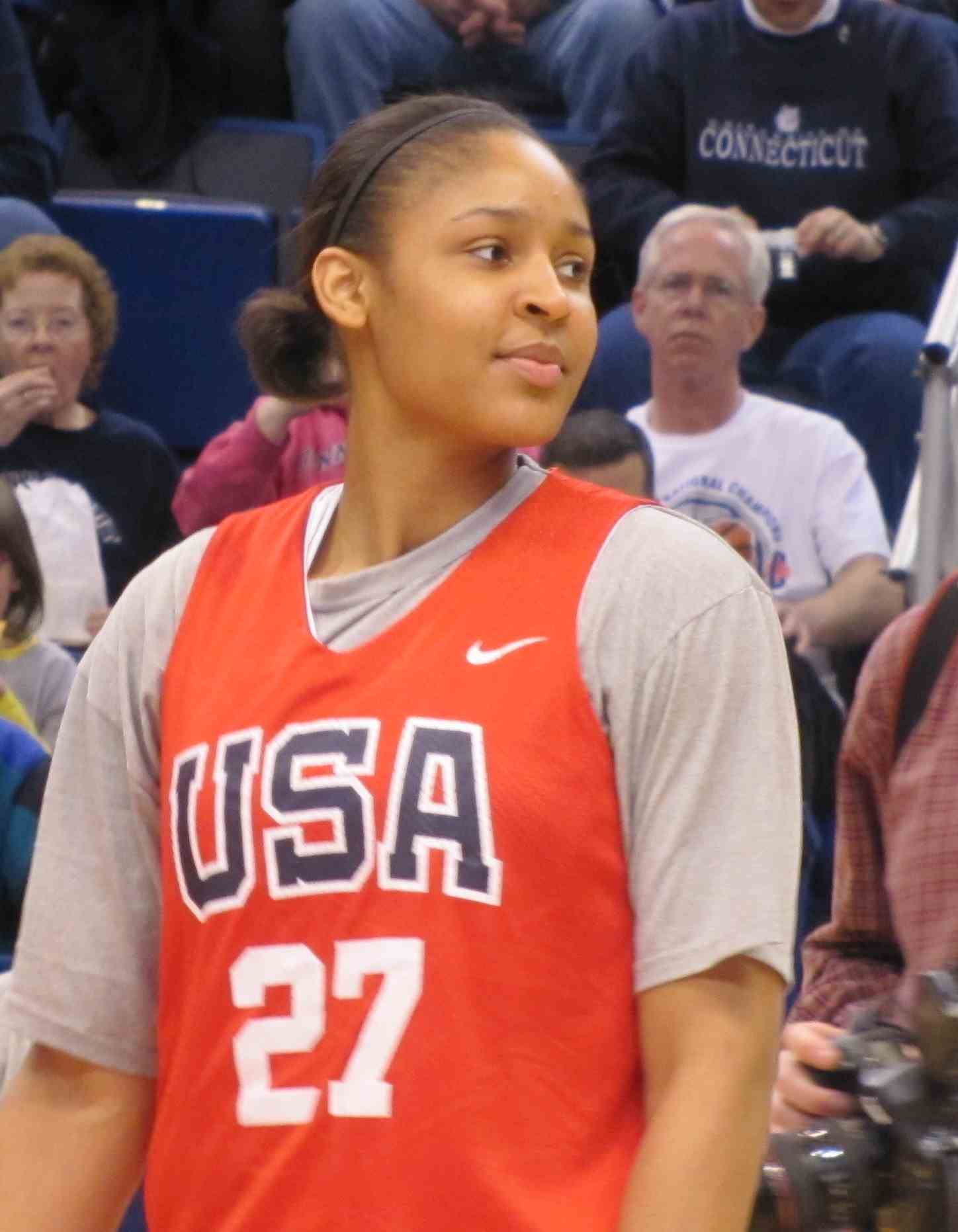 USA Training session for players on the USA National team and USA Select team, beginning training in preparation for the FIBA World Championship. Training took place 14-18 April, culminating in a red-white scrimmage on 18 April at the Veterans Memorial Coliseum in the XL Center, Hartford Connecticut